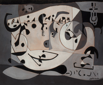 Pierre Dmitrienko,"Composition", 1948, oil on canvas, 145x 174cm